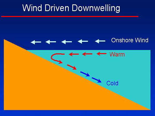 illustration of downwelling